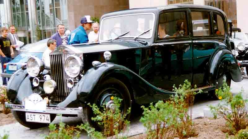 Rolls-Royce 25/30 HP Limousine 1936